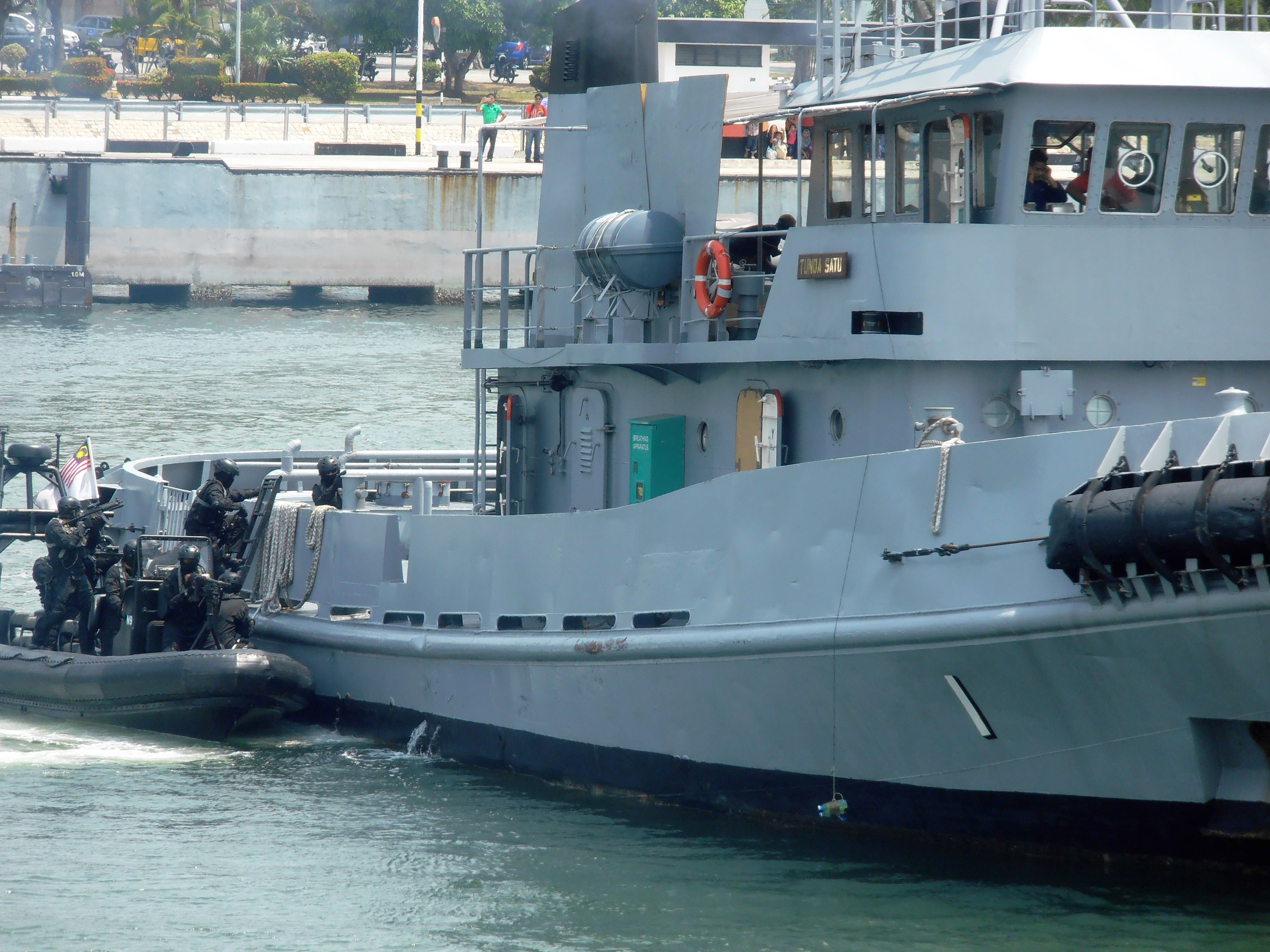 LUMUT (May 01, 2016) – One member of the PASKAL Vessel, Board, Search, and Seizure (VBSS) team climbs up on a ladder while boarding Tunda Satu naval trawler to demonstrate the maritime hostage rescue during 82nd Anniversaries of Royal Malaysian Navy, Lumut, Perak, Malaysia.